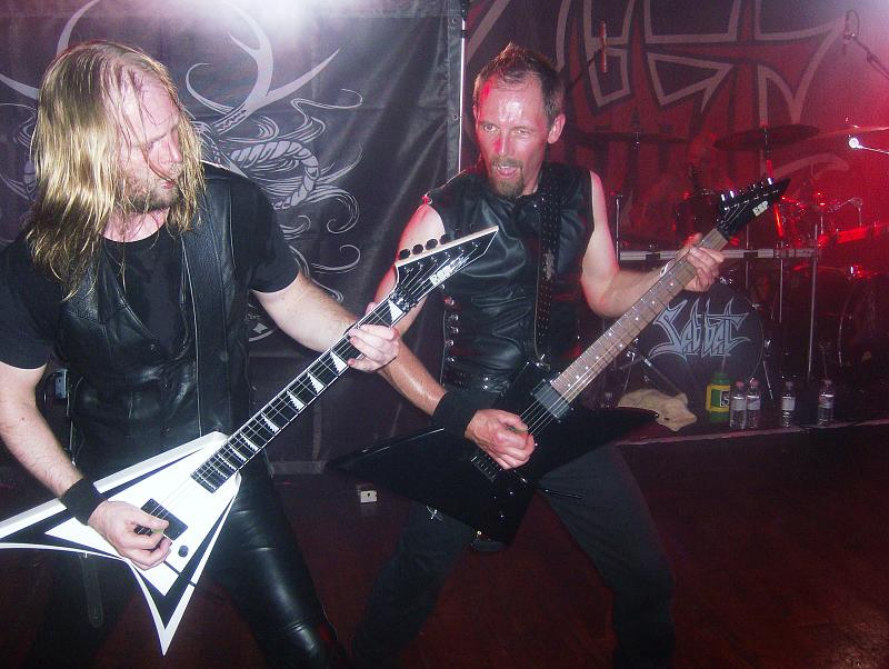 Andy Sneap,Simon Jones [Jack Ham] London scala 2008.